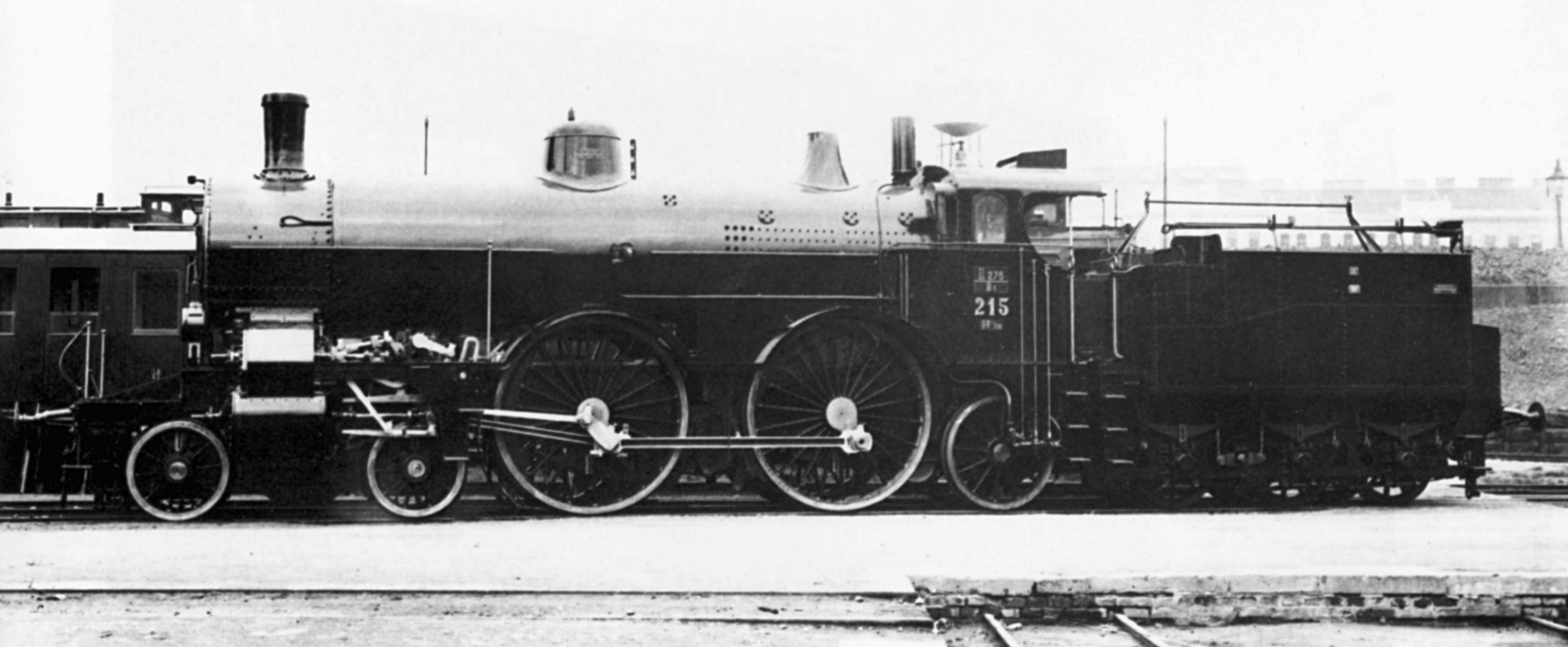 Südbahn 108.215 at Wien Südbahnhof, just after delivery by the StEG-factory, view of the fireman's side